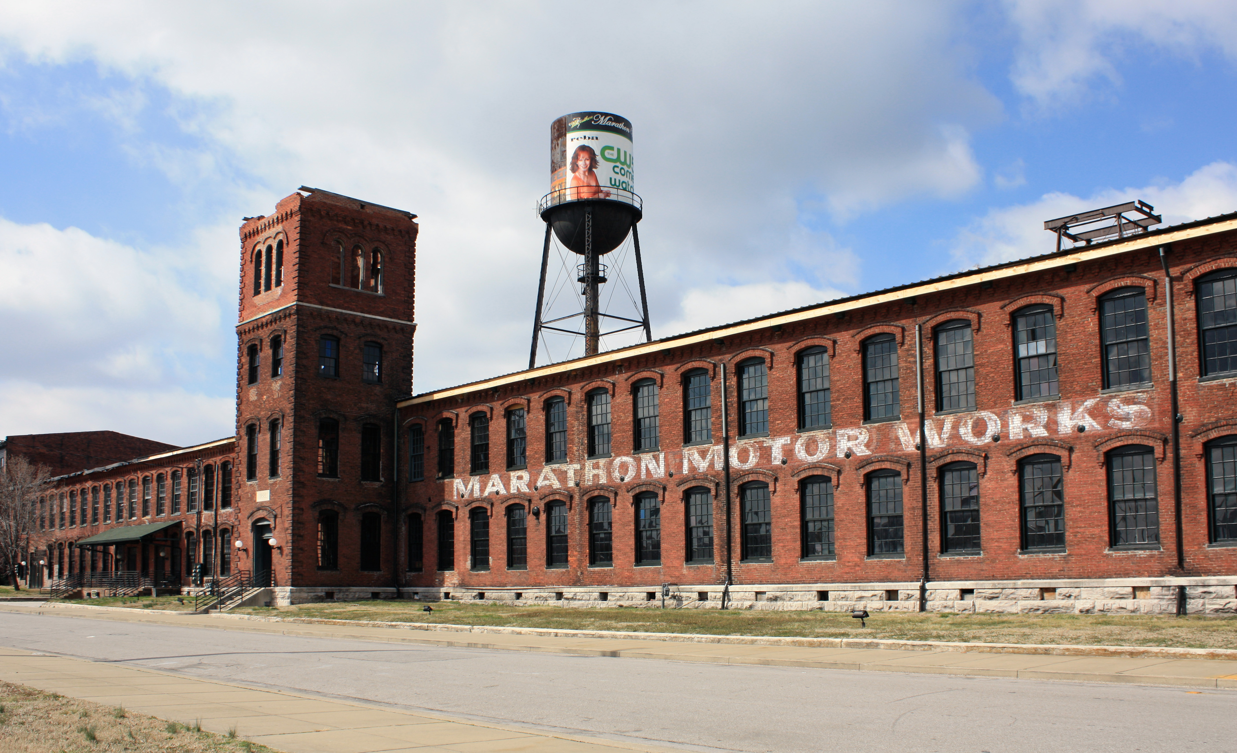 Marathon Motor Works building in Nashville, Tennessee